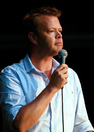 Carsten Bang, danish stand-up comedian.